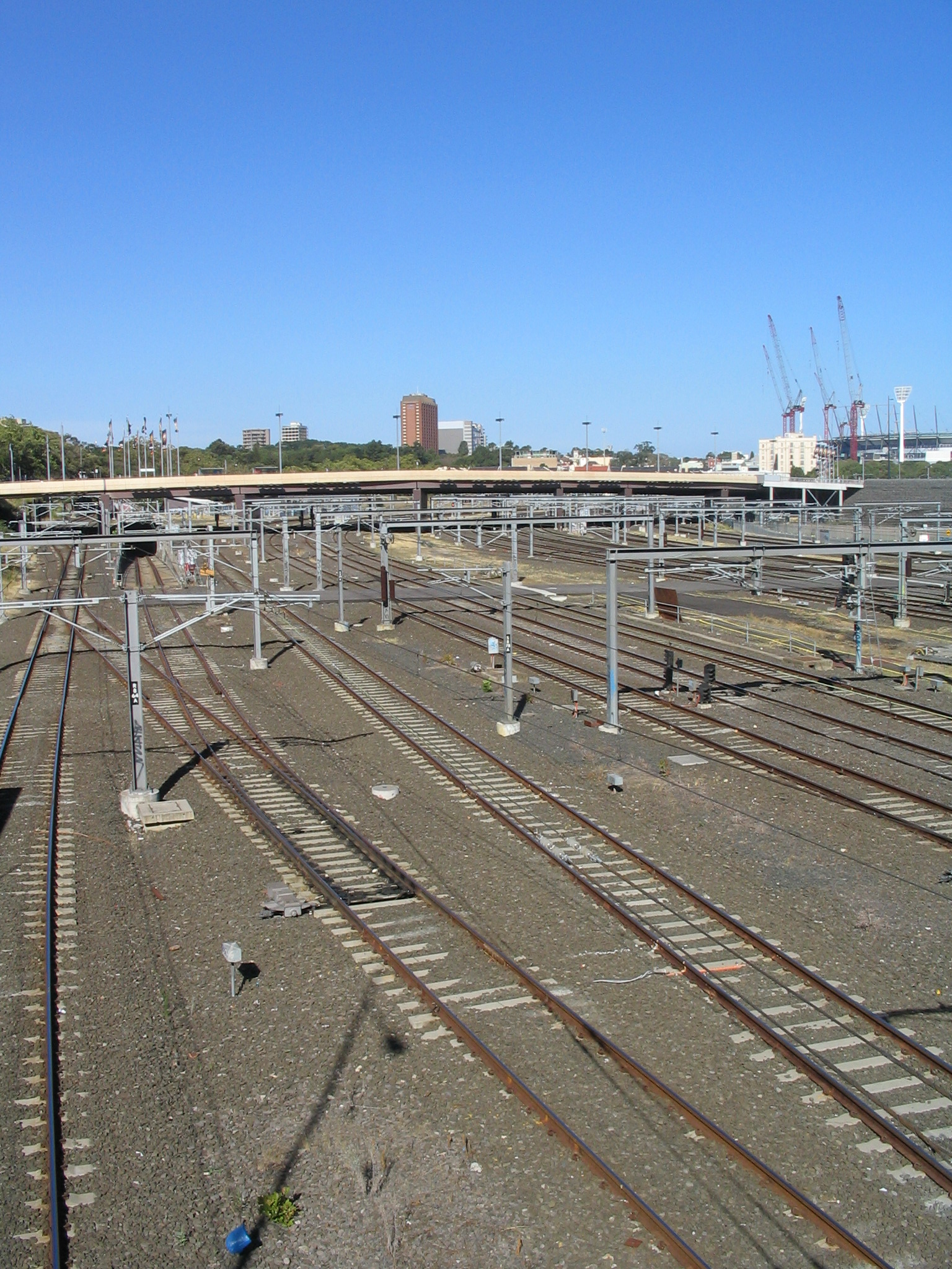 The Jolimont railyard in Melbourne